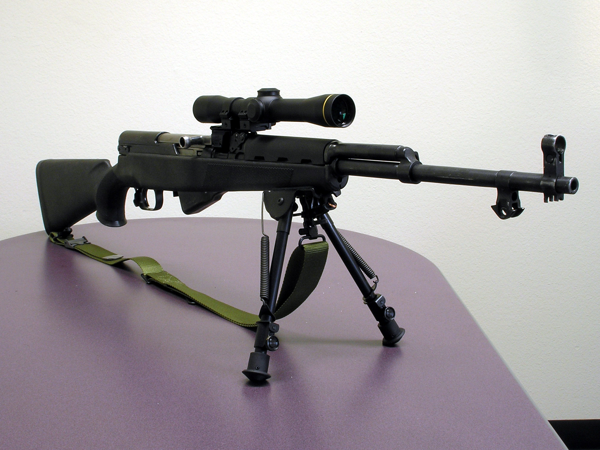 This is an experimental set-up with a Leupold intermediate eye relief scope on a mount from Scout Scopes that replaces the factory rear sight. Once I zeroed the scope, it worked very well against juice bottles at 150 yards. In the past, I have tried various methods for mounting a traditional scope above and behind the ejection/loading port. All of them interfere with loading to some degree, and so the scout scope seems like a better optics solution for the SKS. I only ever customize Chinese SKSes.